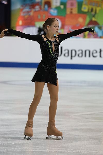 Alexandra Trusova at the Junior World Championships 2019